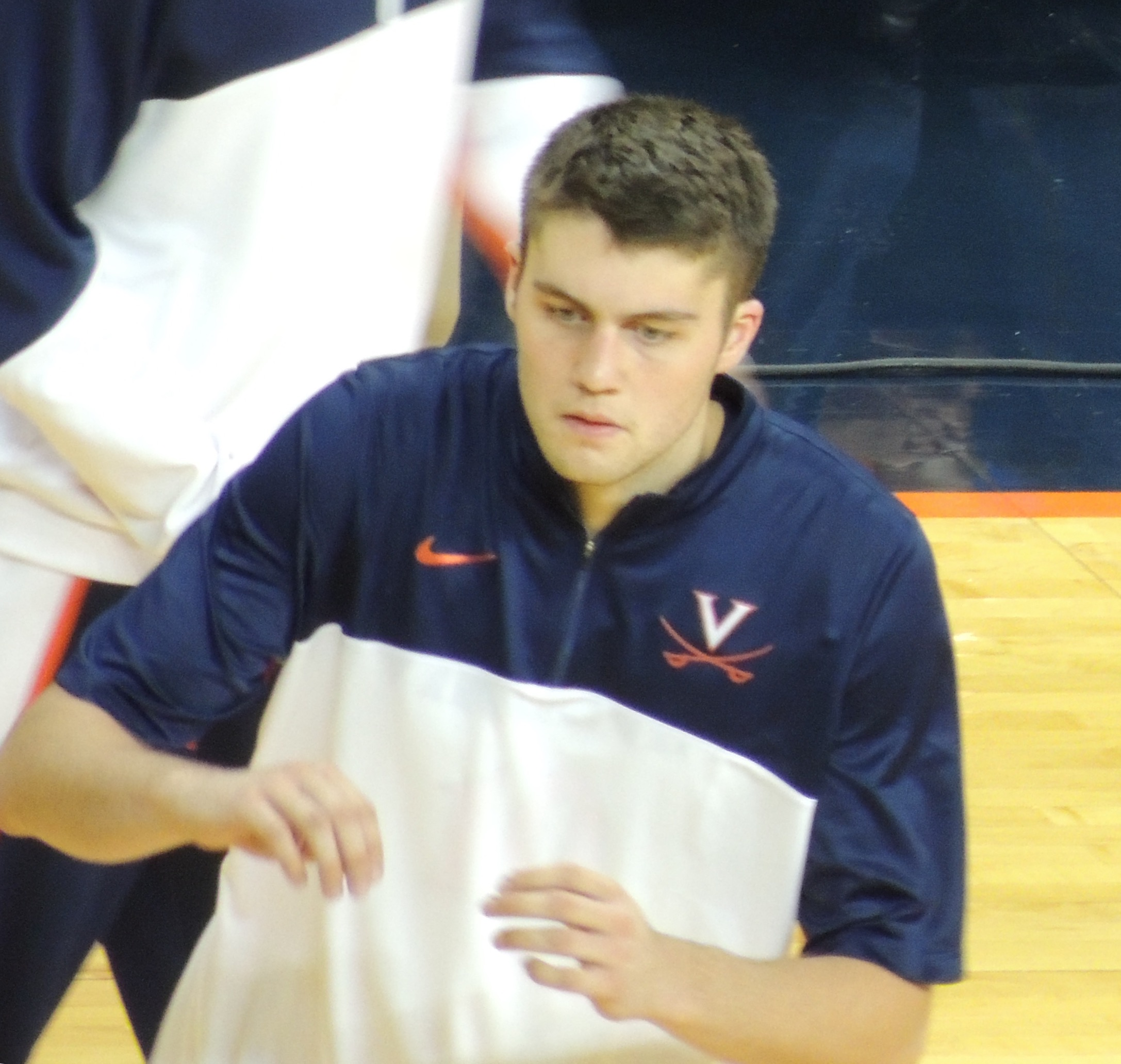 Virginia center Mike Tobey warming up in November, 2013